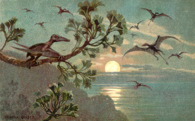 Rhamphorhynchus and Pterodactylus